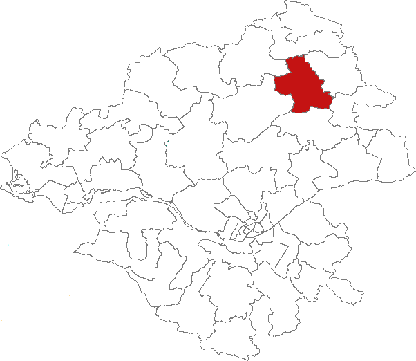 Map of canton of France : Canton de Moisdon-la-Rivière, Loire-Atlantique, France